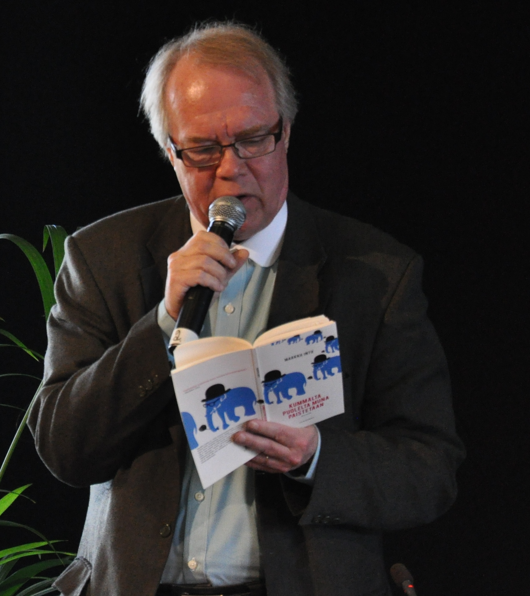 Finnish writer Markku Into at the Turku Book Fair 2009.